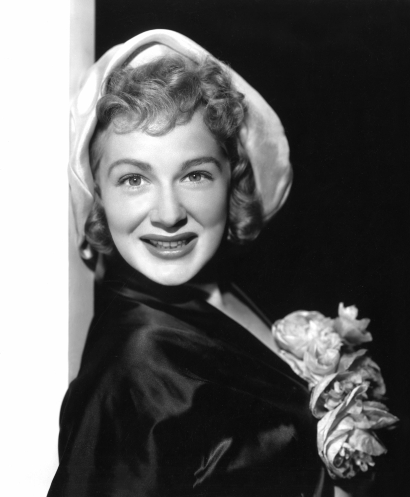 Actress Betty Hutton